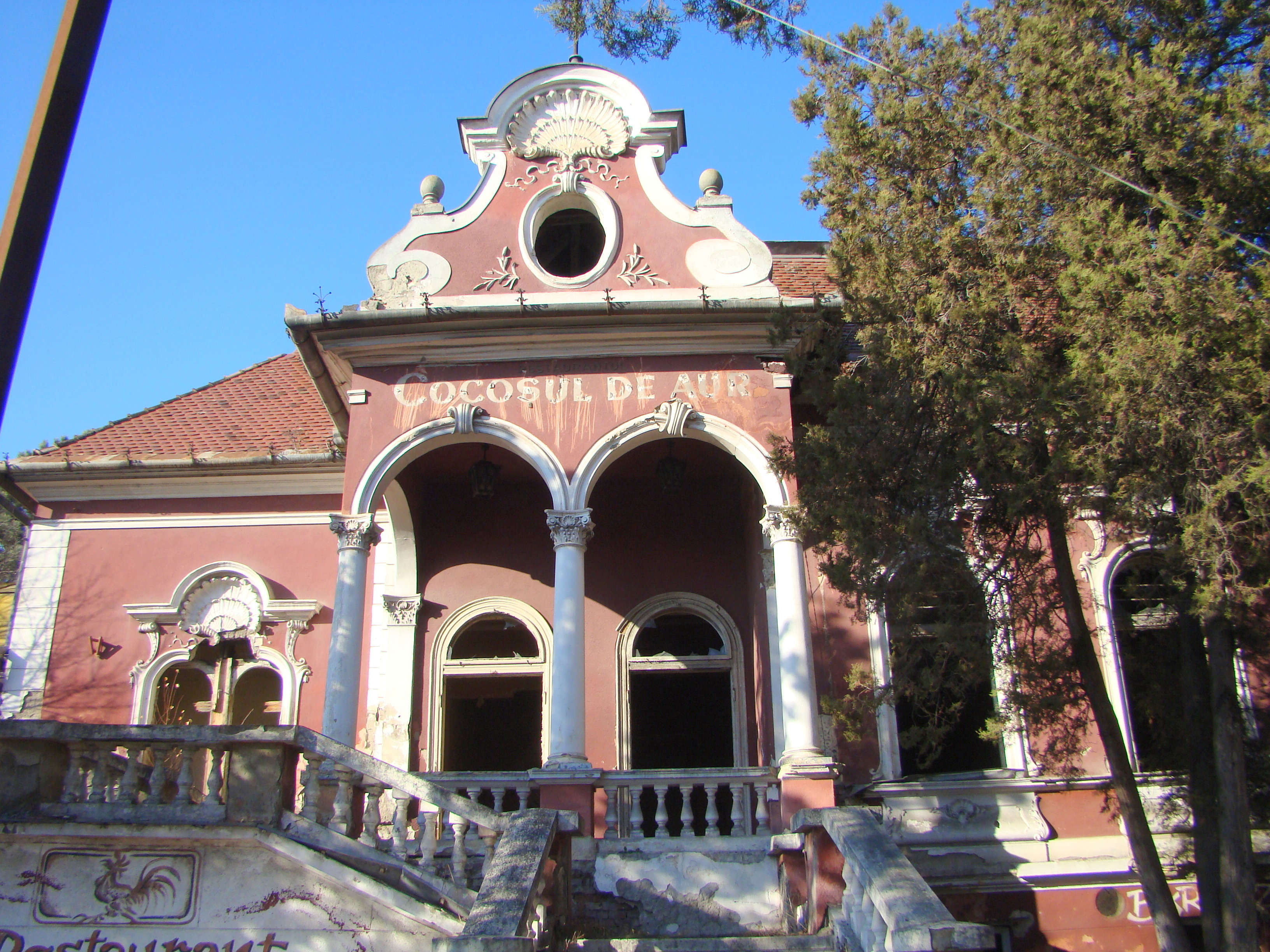 Bürger house in Târgu Mureș, Mureș county, Romania